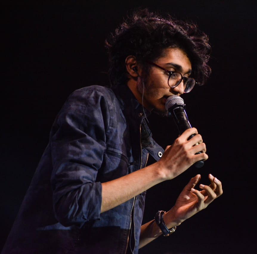 Sanjith Hegde performing in 2018